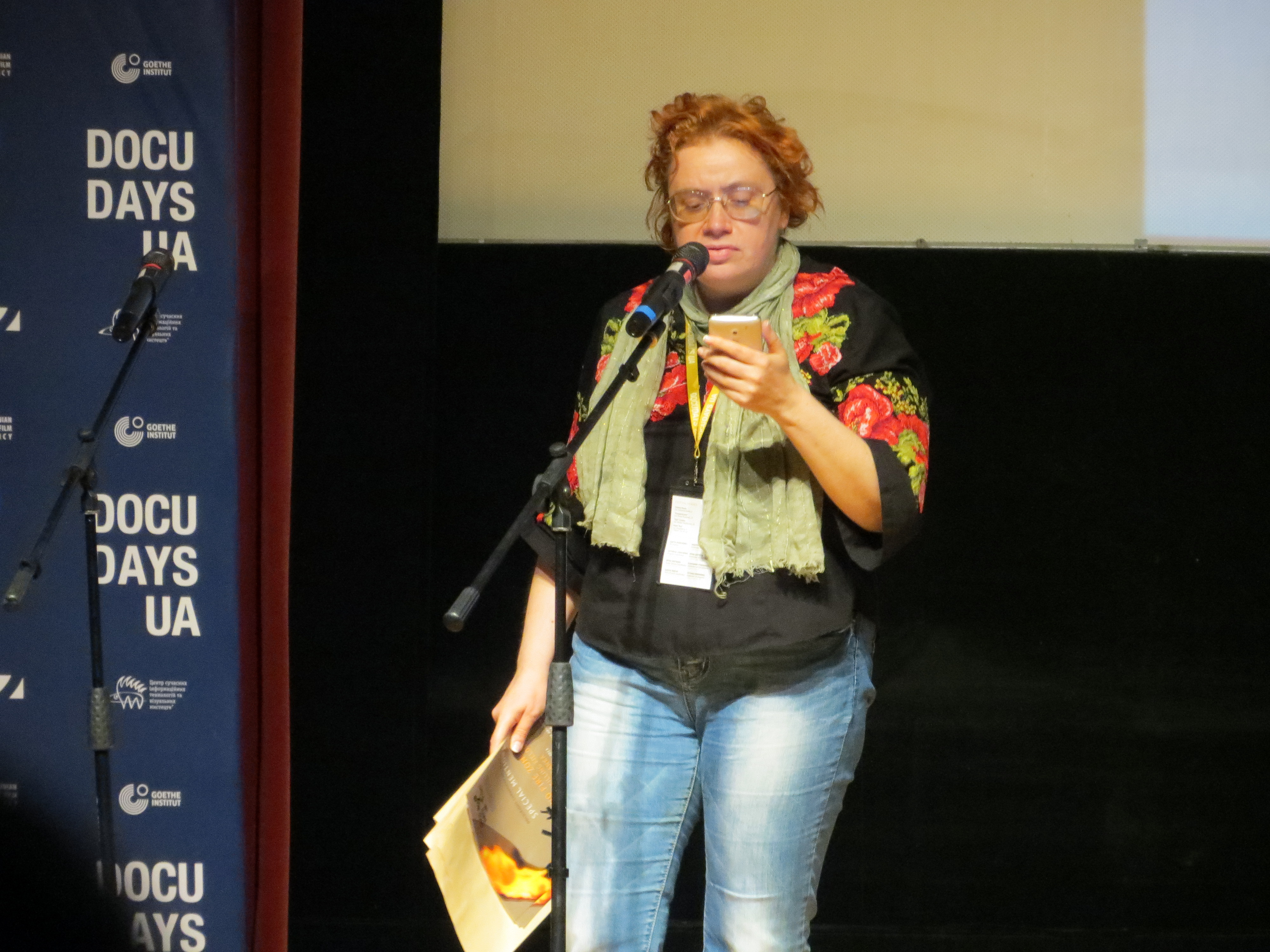 11th Docudays UA Awards Ceremony (Cinema House in Kyiv, March 27, 2014)